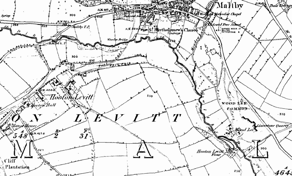 Detail of map of South Yorkshire (formerly West Riding), ca. 1855. The settlement of Hooton Levitt is pictured.